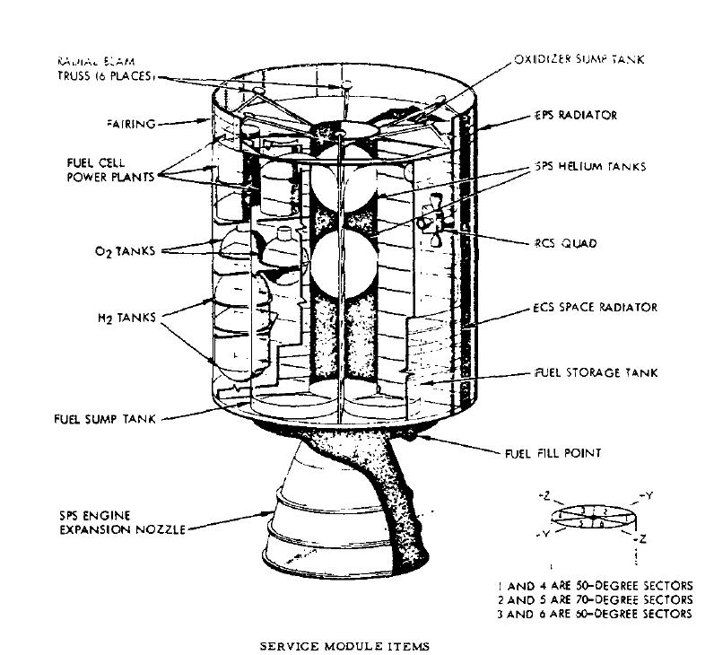 Service module interior components. From the Apollo 7 press kit. The Apollo 7 press kit was published by the National Aeronautic and Space Administration, and therfore, in the public domain. It can be viewed in it's entirety at the Kennedy Space Center website: Apollo 7 press kit